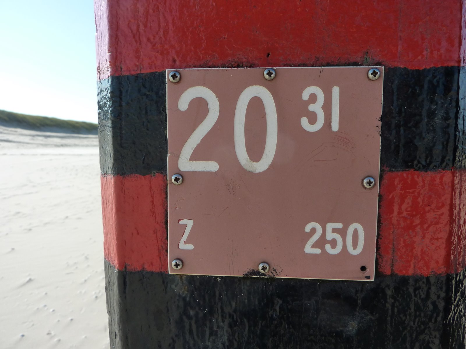 The Netherlands, Texel, De Koog, BeachPost